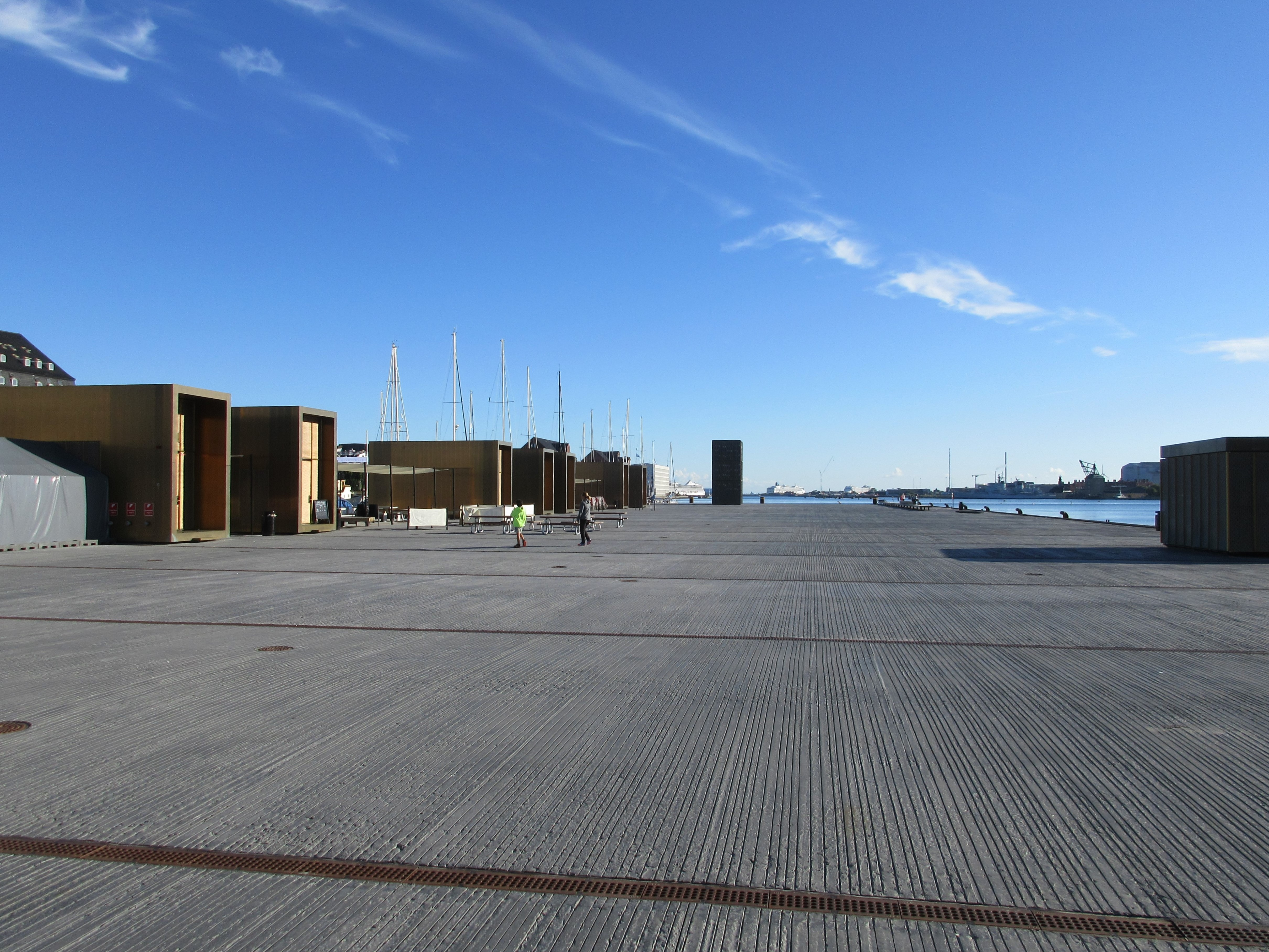 Ofelia Plads in Copenhagen, Denmark